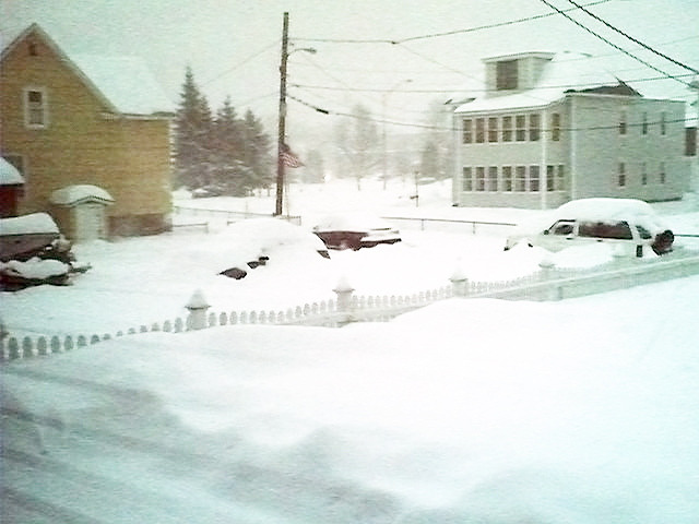 This is a photo of snow cover in Berlin, New Hampshire on February 14, 2007 at 4:30pm. The original photograph Image:Pic021407_1.jpg was taken by user User:Powpii. This edited version attempts to improve the lighting.